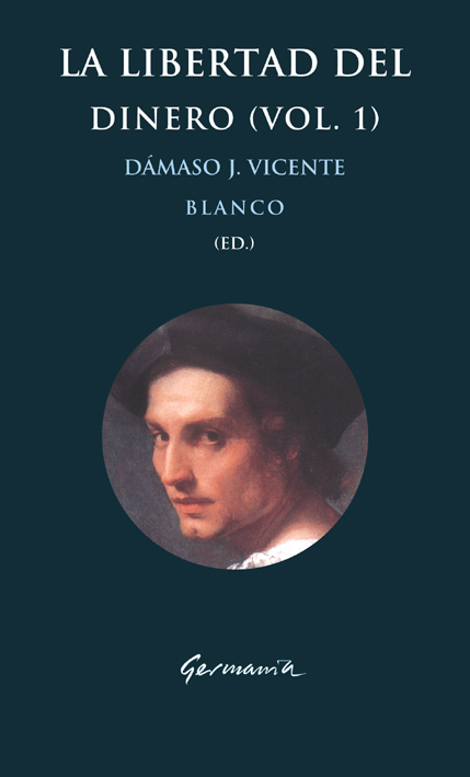 Book Cover "La libertad del dinero" volumen I. Dámaso J. Vicente Blanco (ed.) Germania, 2003 ESPAÑA